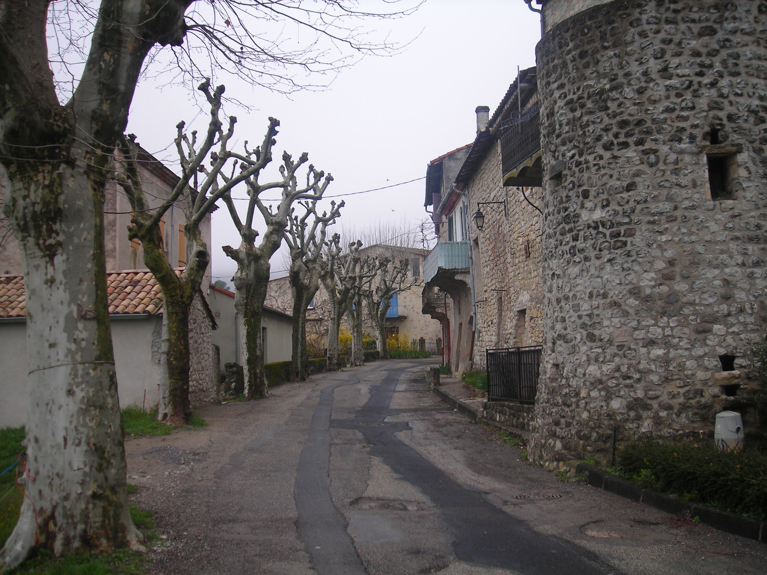 Village Valvignères, Ardèche landscape, France